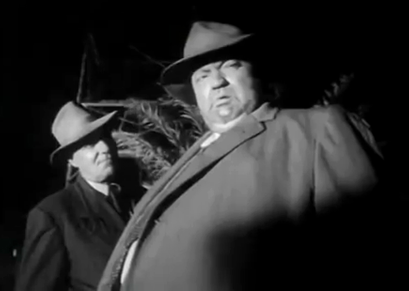 Cropped screenshot of Joseph Calleia and Orson Welles in the original theatrical trailer for Touch of Evil